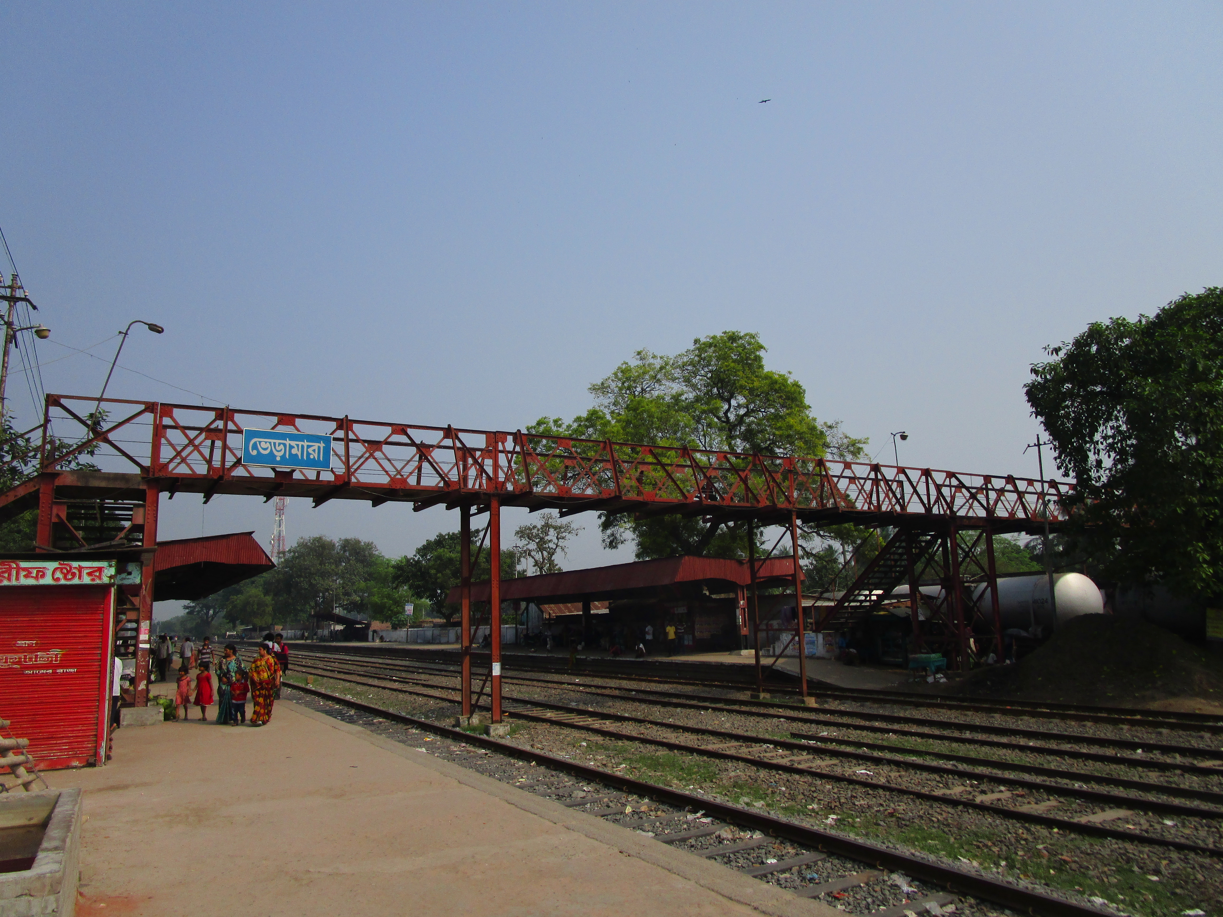 Veramara Railway Station at Veramara Upazila.